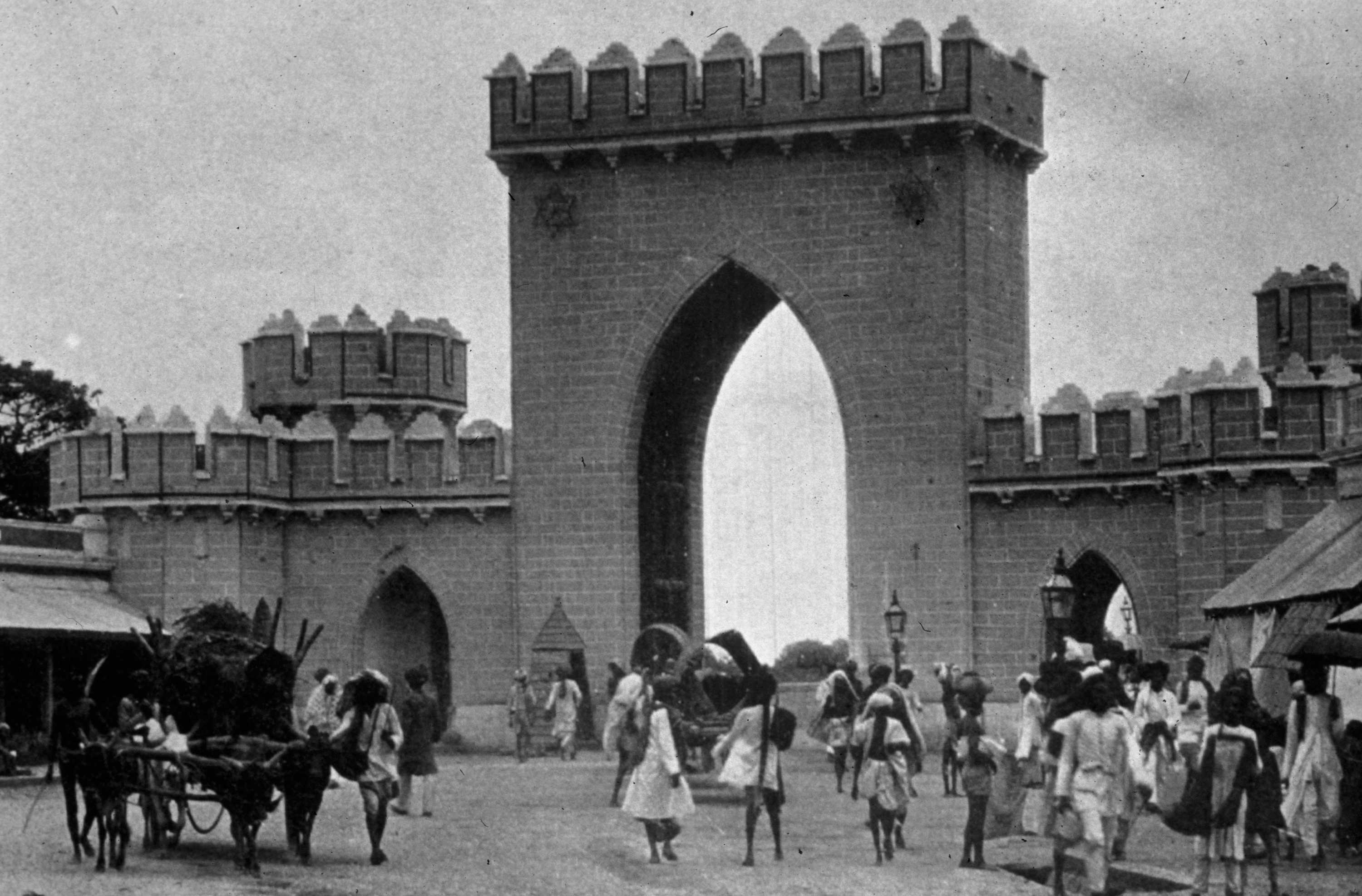 Afzal Darwaza was constructed over the Naya Pul/Afzal Ganj Bridge in the name and era of Afzaluddawlah (1857–1869), in 1861, this arched city gate was surmounted with a clock tower. In 1954, the new government bulldozed the Afzal Darwaza supposedly to improve traffic conditions